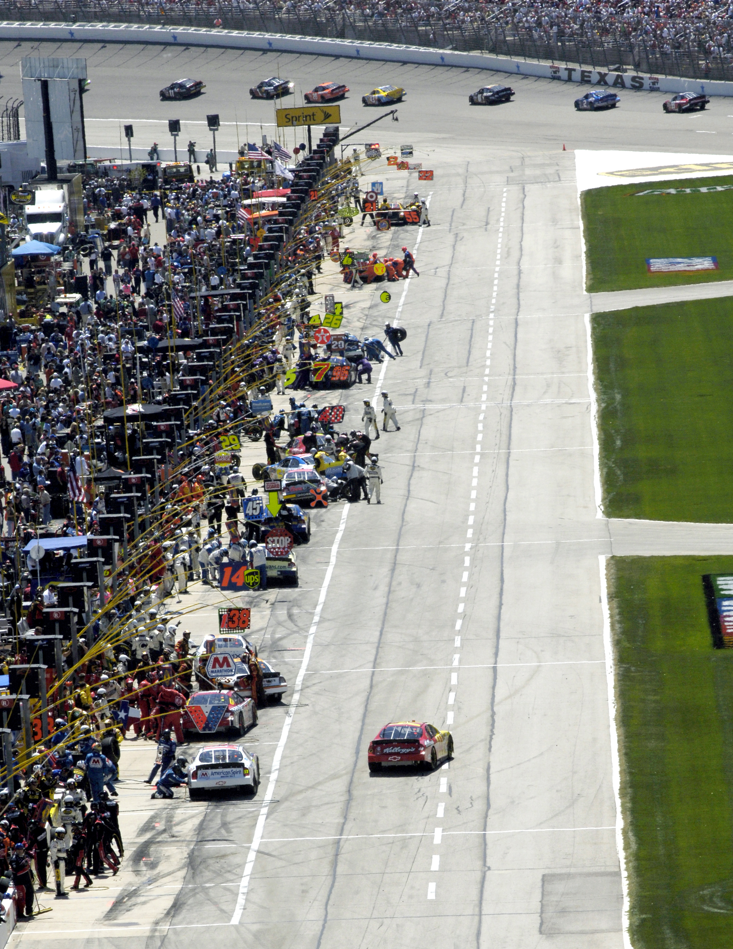 Pit Lane at the 2006 Samsung/Radio Shack 500